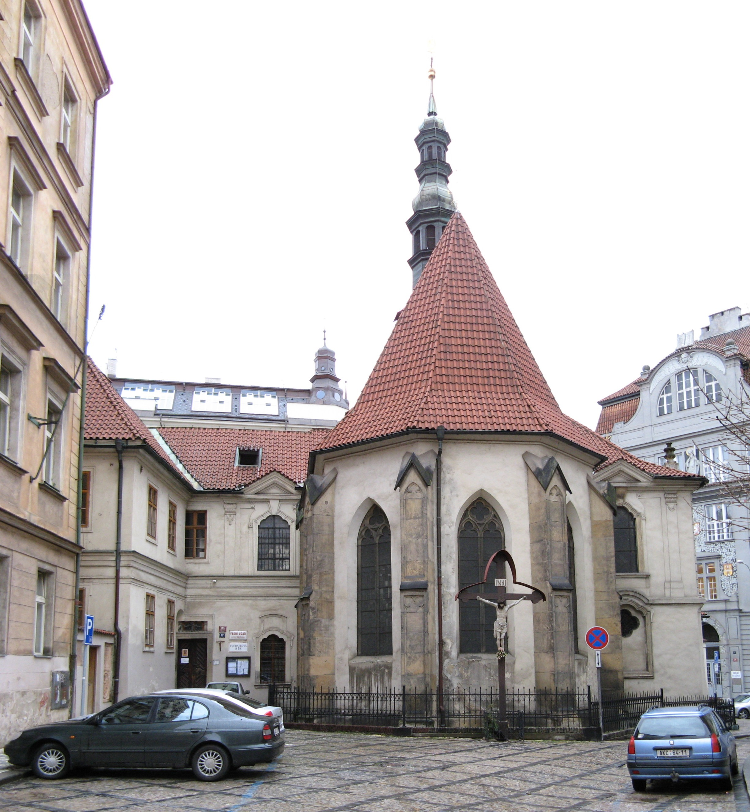 Church of st. Adalbertus in Prague, New Town